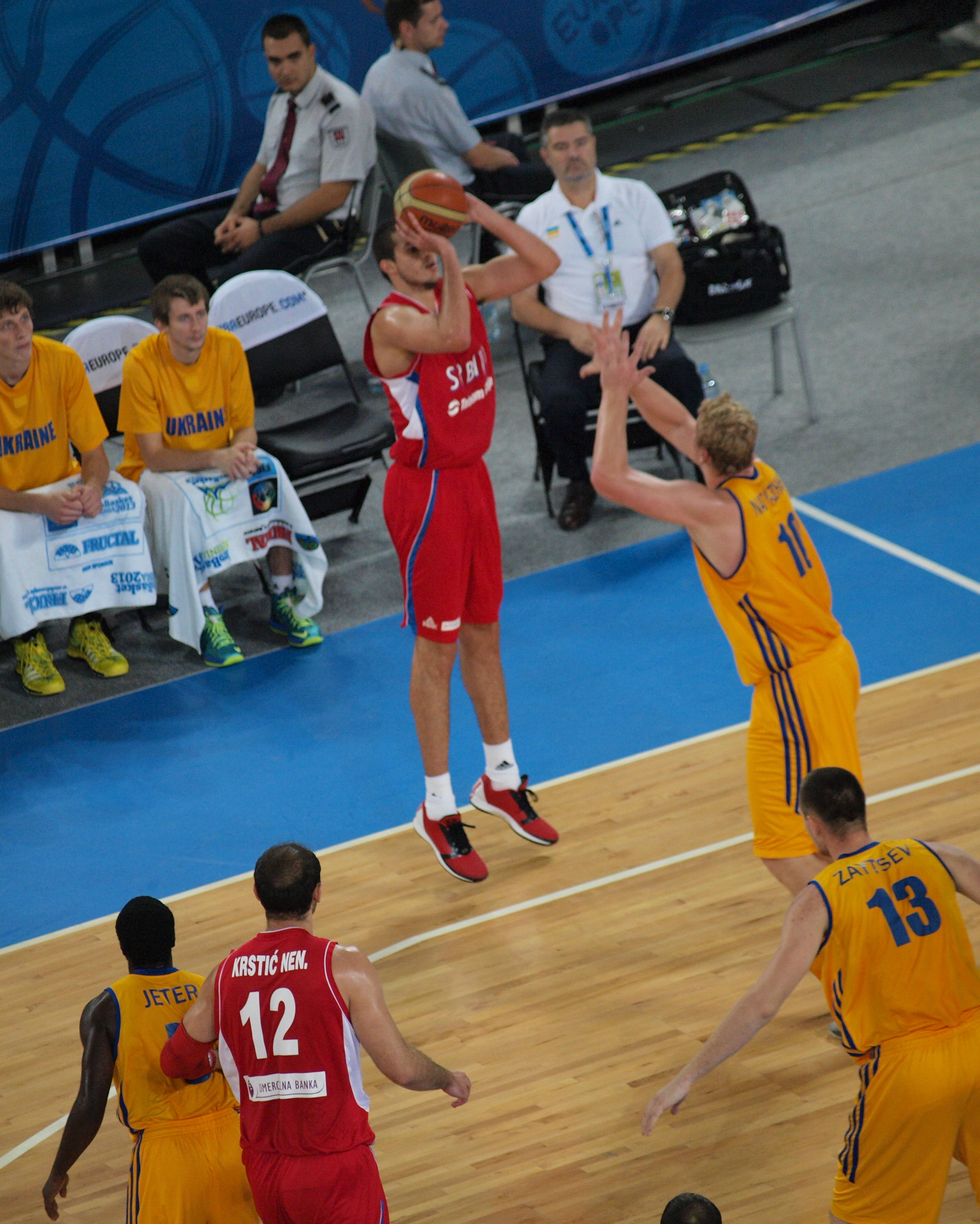 Serbian team attacking Ukraine, Eurobasket 2013. Српски (ћирилица): Напад Србије, мећ против Украјине, Еуробаскет 2013.